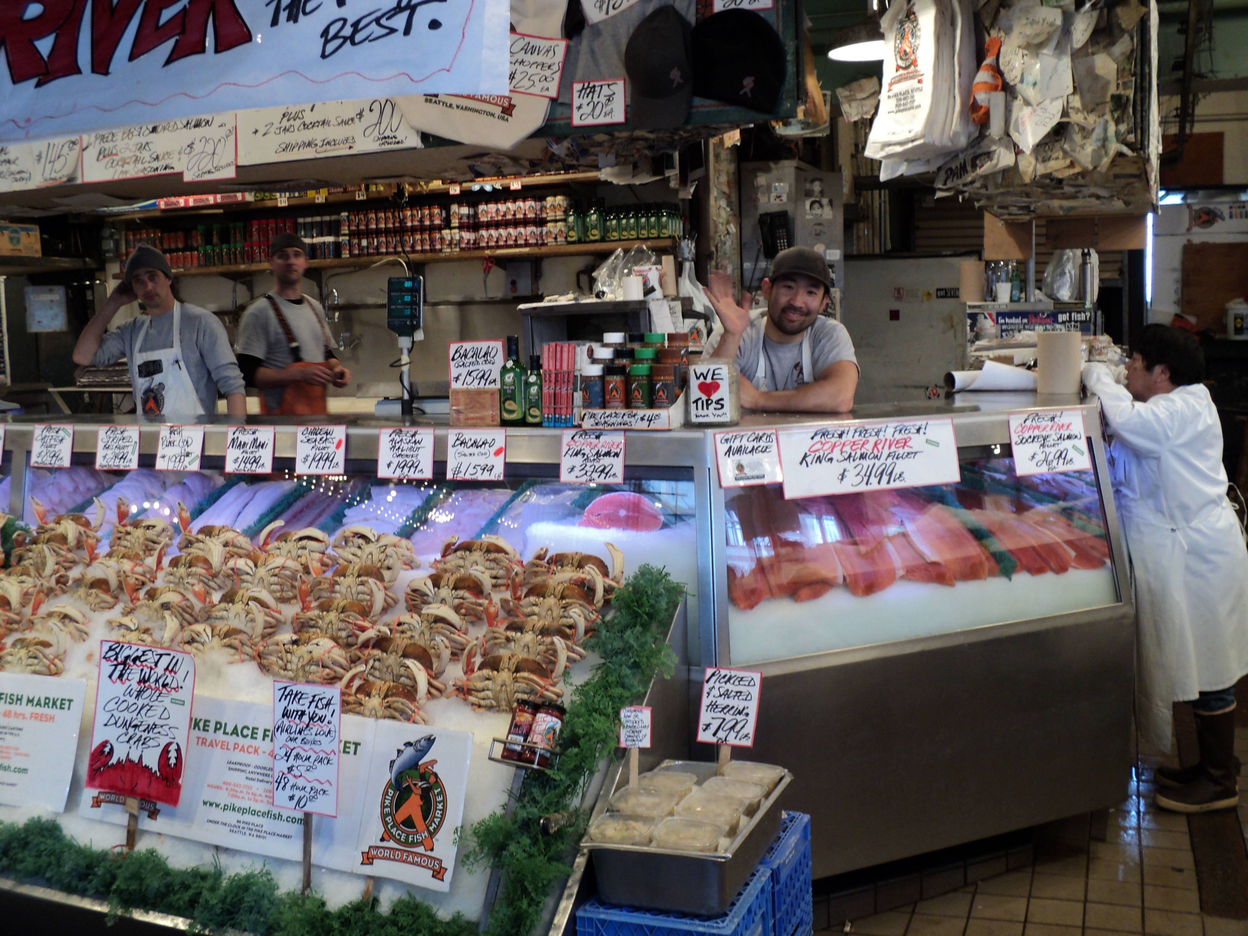 Longtime employee Taho standing at counter of Pike Place Fish Market, located within Pike Place Market, downtown Seattle, Washington.